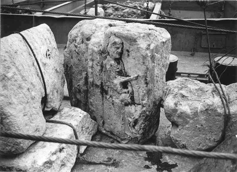 Fragments of ancient Roman sculptures found in 1963 in the river Meuse in Maastricht, Netherlands. Photo collection: RHCL, Maastricht, ref. nr. 22759.